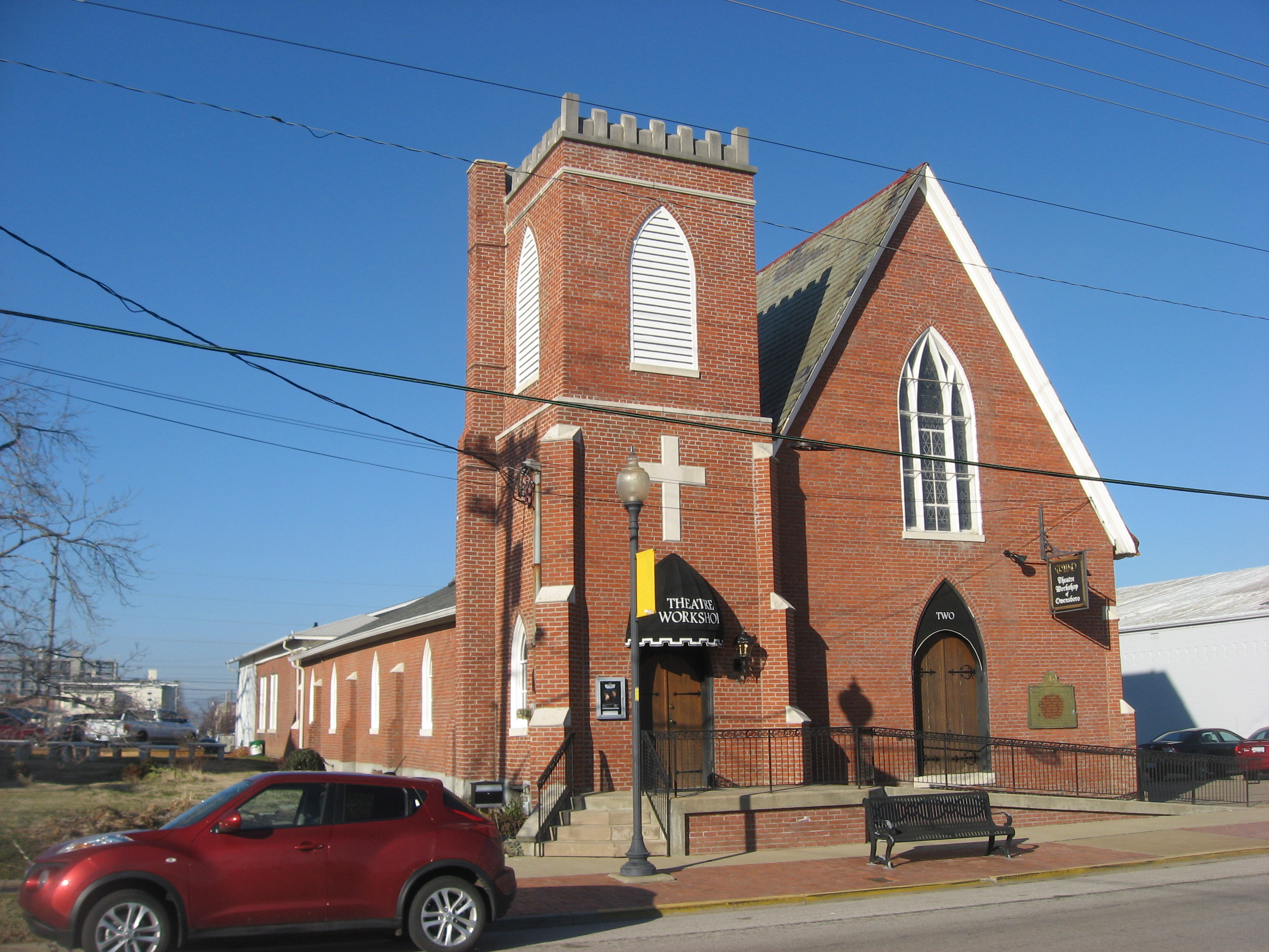 Western side and front of the former Trinity Episcopal Church, located at 403 W. Fifth Street in Owensboro, Kentucky, United States. Built in 1875, it is listed on the National Register of Historic Places.